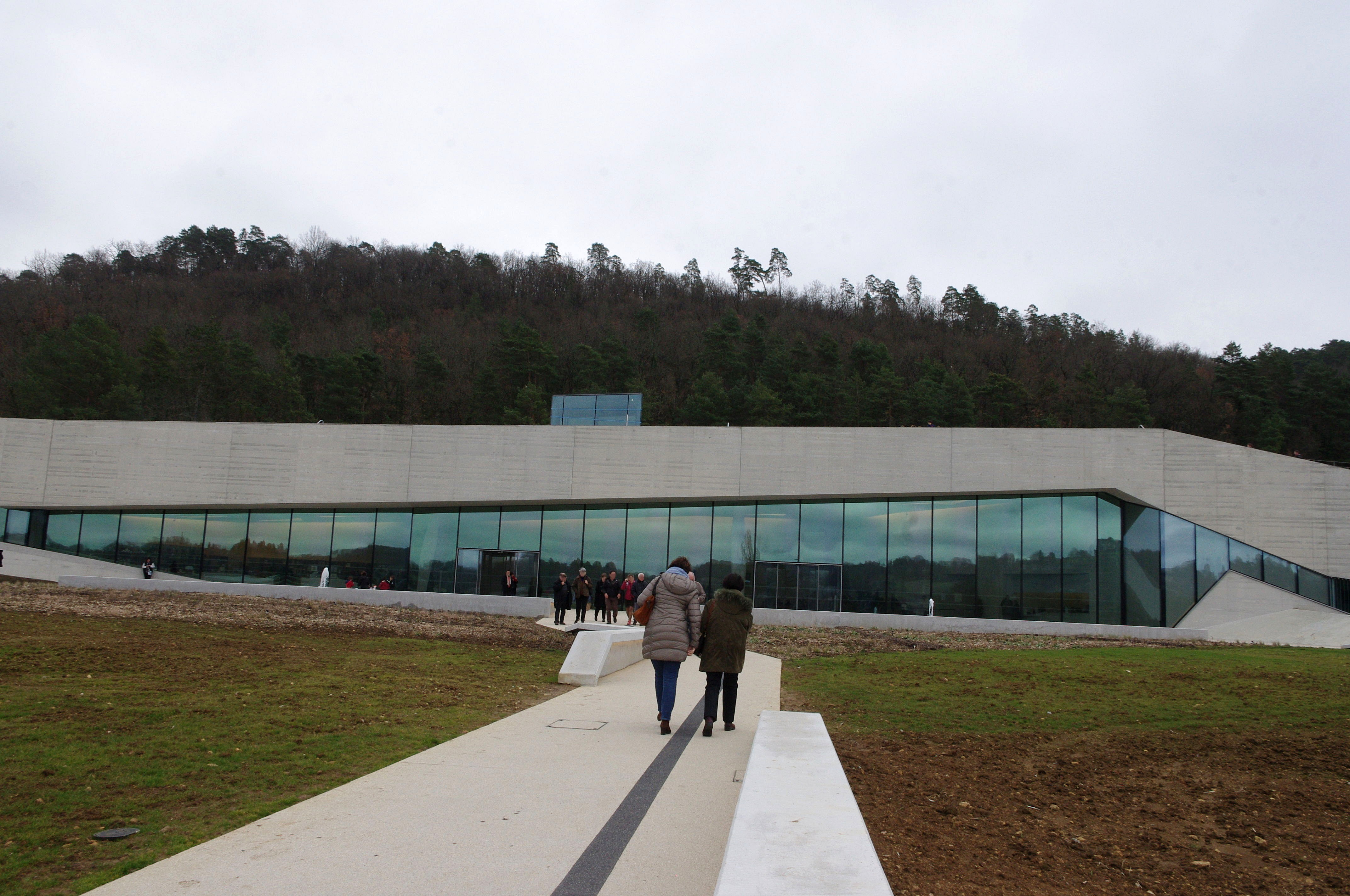 Lascaux 4, Montignac, Dordogne, France. Pictures takes in the part called atelier.